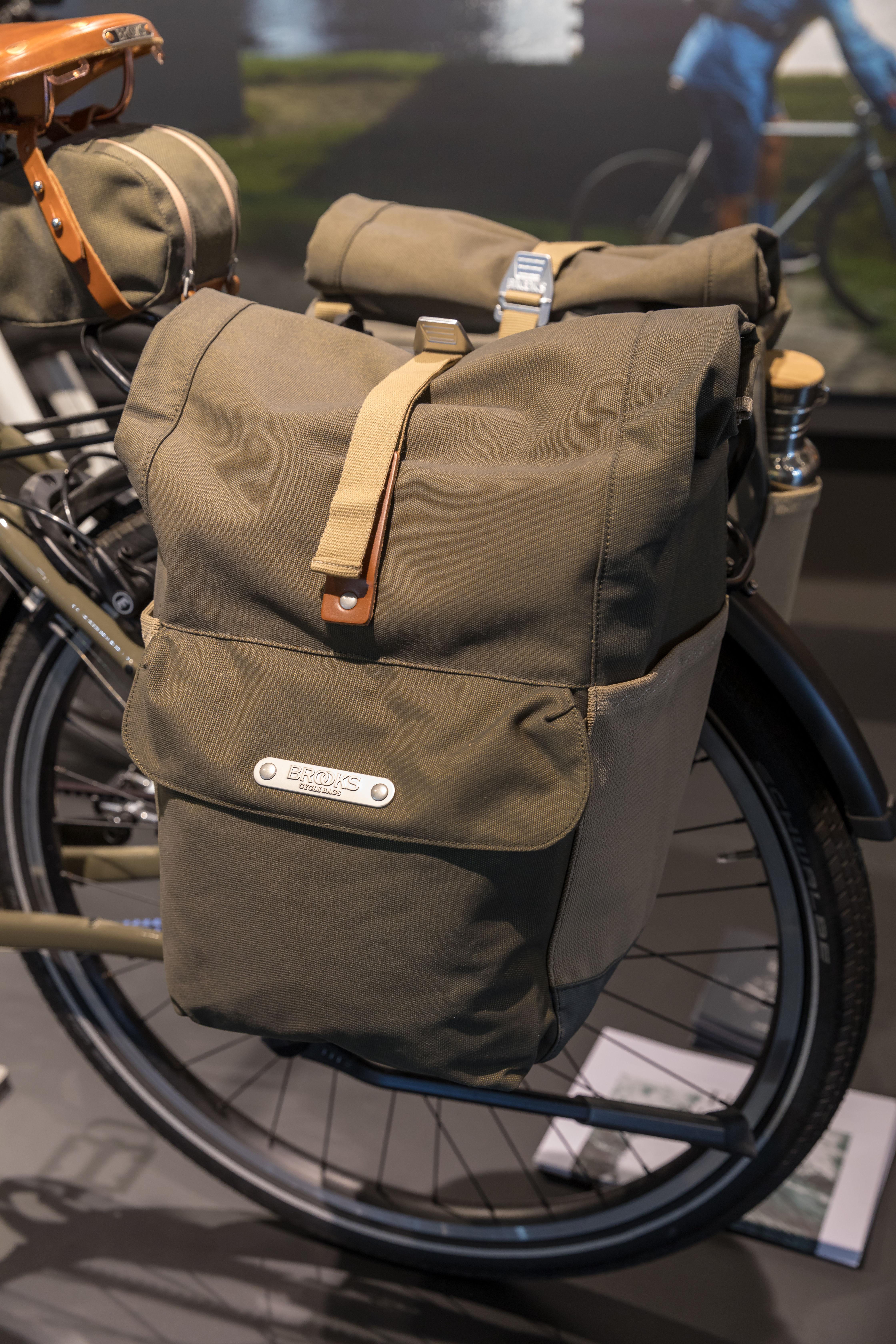 OutDoor 2018